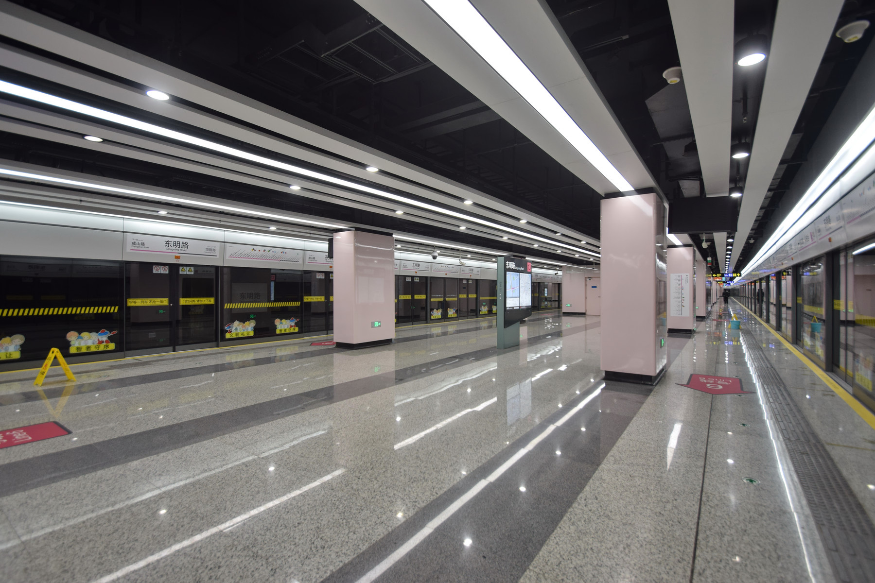 Line 13 Platform of Dongming Road Station, Shanghai Metro